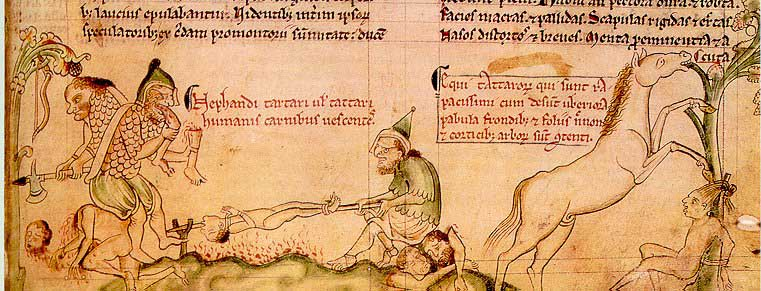 Matthew Paris, a Benedictine Monk writing in 1240 A.D., painted this very fanciful (and inaccurate) picture of Mongol warriors at a cannibal feast as part of his Chronica Majora.